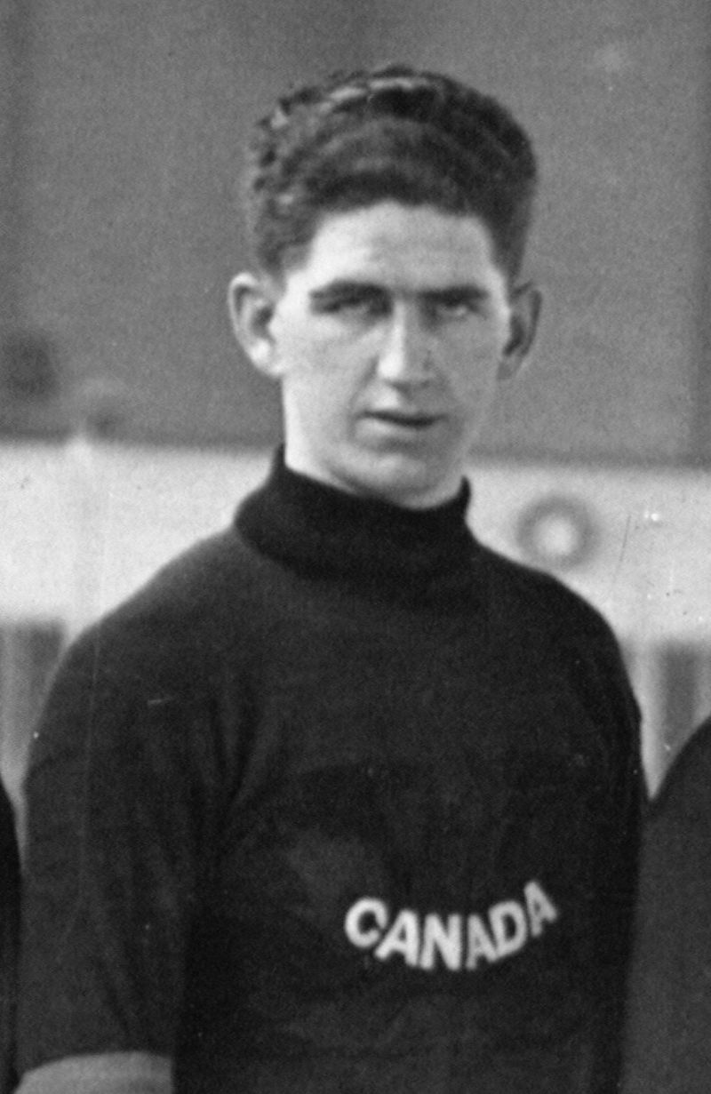 Ice hockey player Haldor "Slim" Halderson of the Winnipeg Falcons representing the Canadian national ice hockey team at the 1920 Summer Olympics in Antwerp, Belgium. The picture is a crop out of a larger team photo taken inside the ice rink Palais de Glace d'Anvers. The ice hockey tournament at the 1920 summer Olympics took place between April 23 and April 29. The canadian team won gold medals at the games.